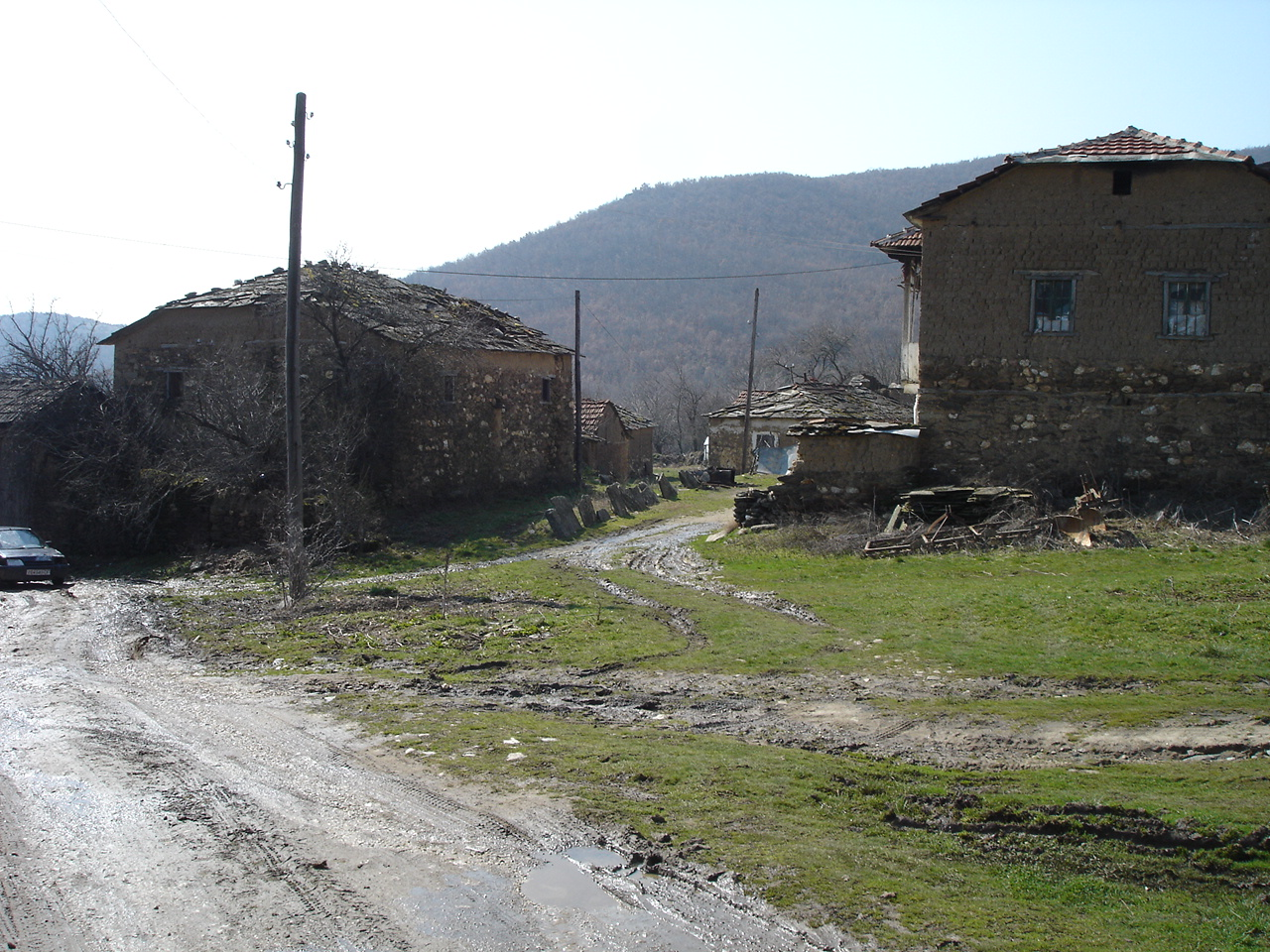 Old houses in Rilevo, Macedonia